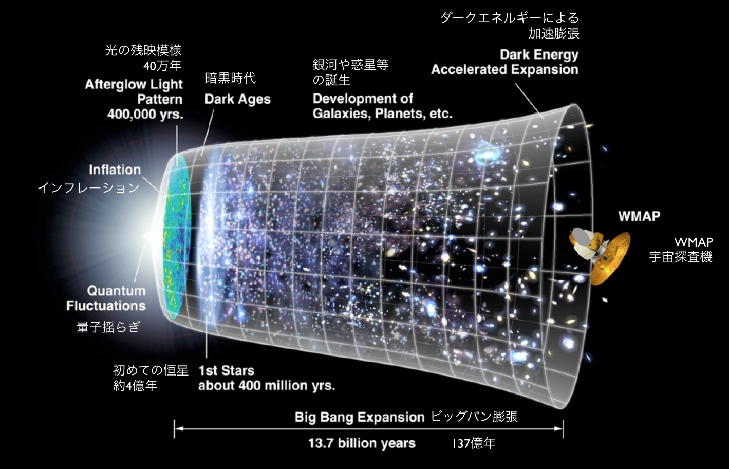 Timeline of the Universe